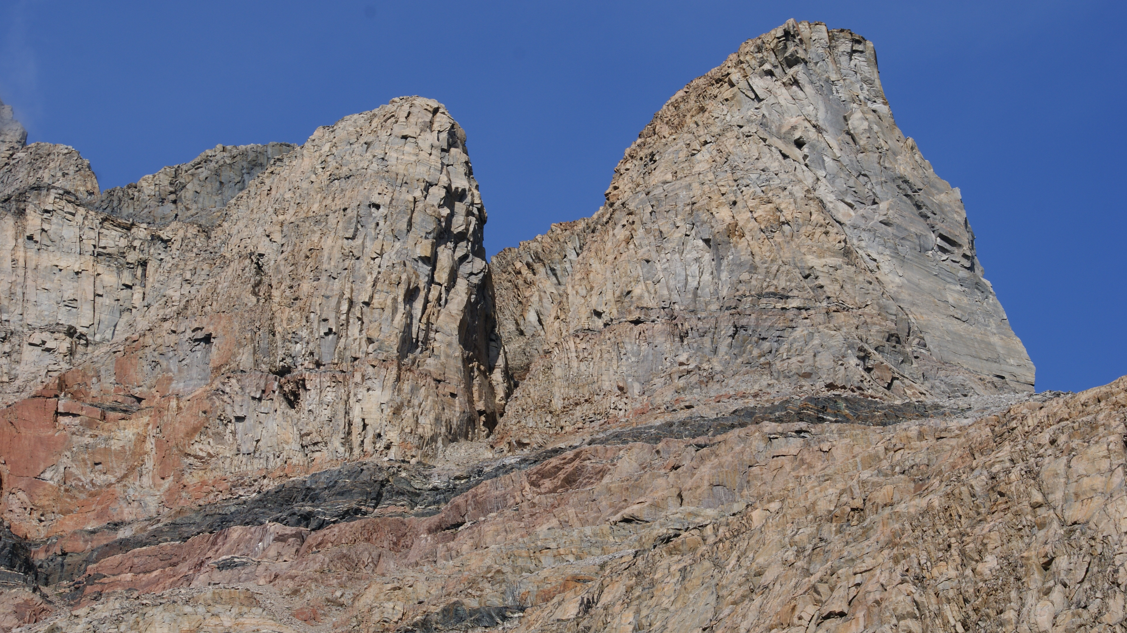 Uummannaq mountain, 1170m, Greenland. Trabant bastions in the southeastern pillar.